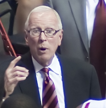 San Diego State basketball coach Steve Fisher instructs his players during a timeout in a game vs Point Loma Nazarene.